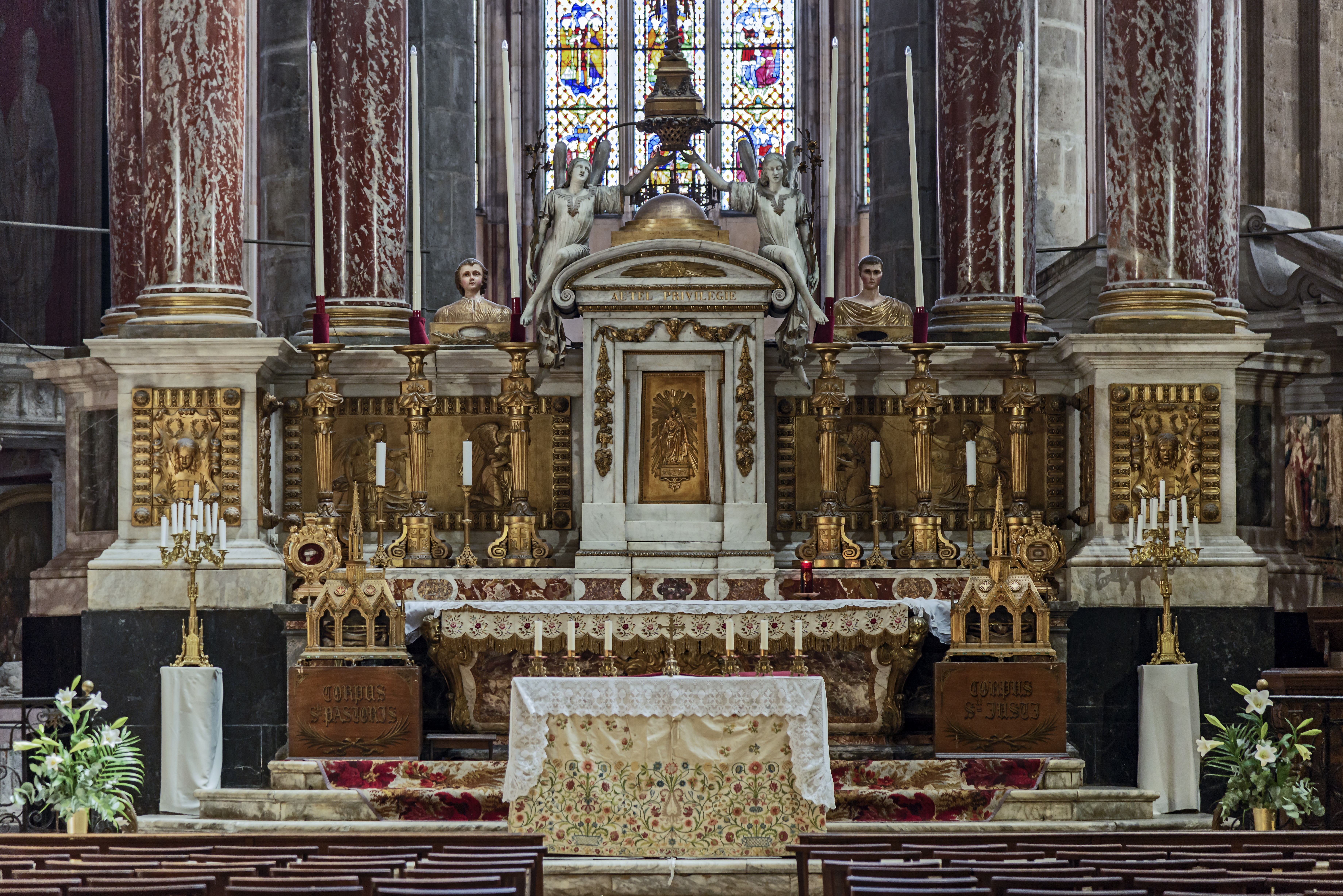 Cathedral Saint-Just-et-Saint-Pasteur Narbonne. High altar and retable dates from 1694 to 1695 by Laurel, the designs of Mansart. In 1752, the altar was restored by Joseph Gitard, and in 1841, Viollet-le-Duc made the tabernacle and the retable.